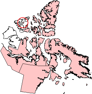 Base image created by Keith Edkins as GFDL, modified by Tim Vasquez.